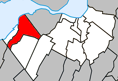 Location of Châteauguay, Quebec within Roussillon Regional County Municipality.